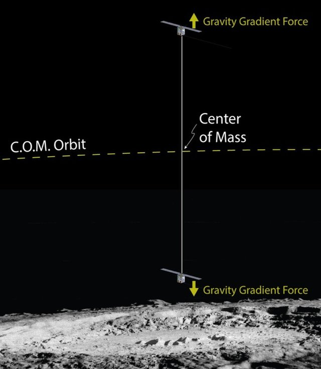 BOLAS (Bi-sat Observations of the Lunar Atmosphere above Swirls) is a spacecraft mission concept capable of making the repeated low altitudes measurements required in order to understand vital aspects of the lunar hydrogen cycle and space weathering. The concept, currently under study by NASA, involves two small identical CubeSat satellites, connected vertically above the lunar surface by a long thin tether.